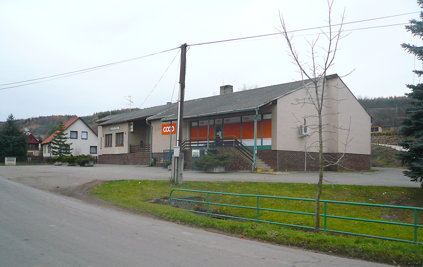 Pochvalov, general store